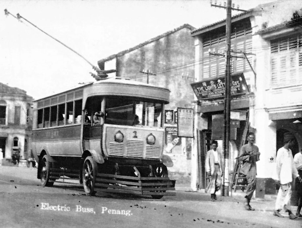 George Town trolleybus number 1 turning out of Chulia Street onto Penang Road passing Leith St Police Station.